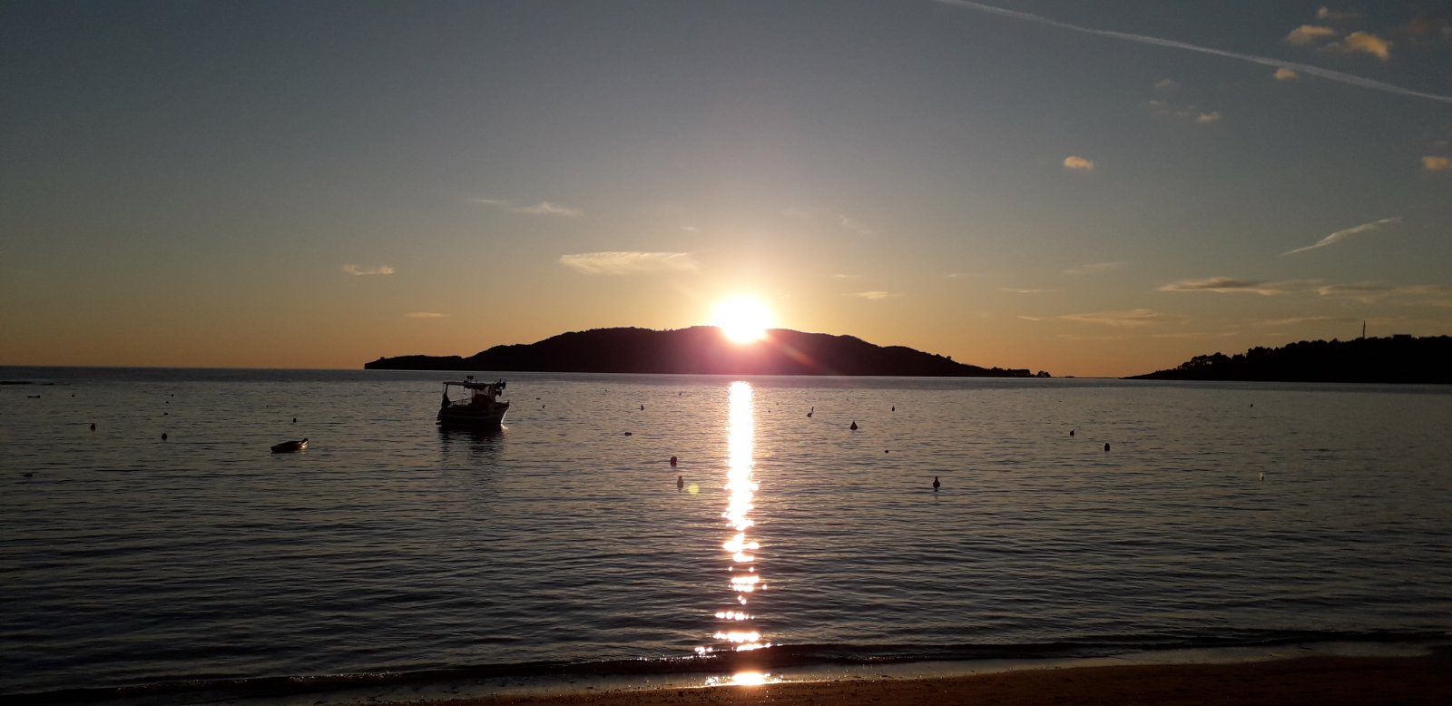 St. Nicolas (island) Budva.